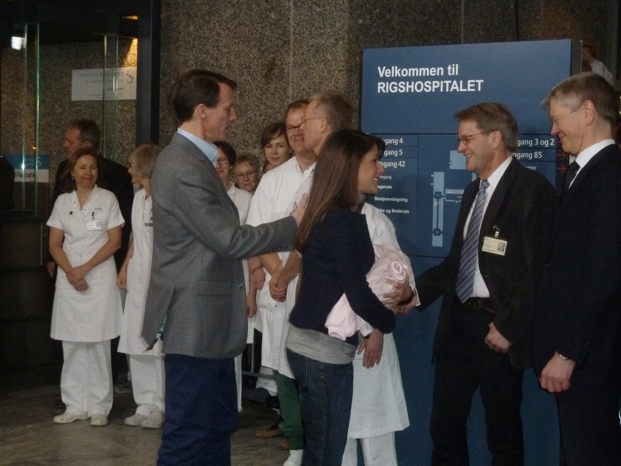 Prince Joachim and Princess Marie of Denmark meet the public with their three days old daughter. On the picture they are thanking the staff of the hospital.